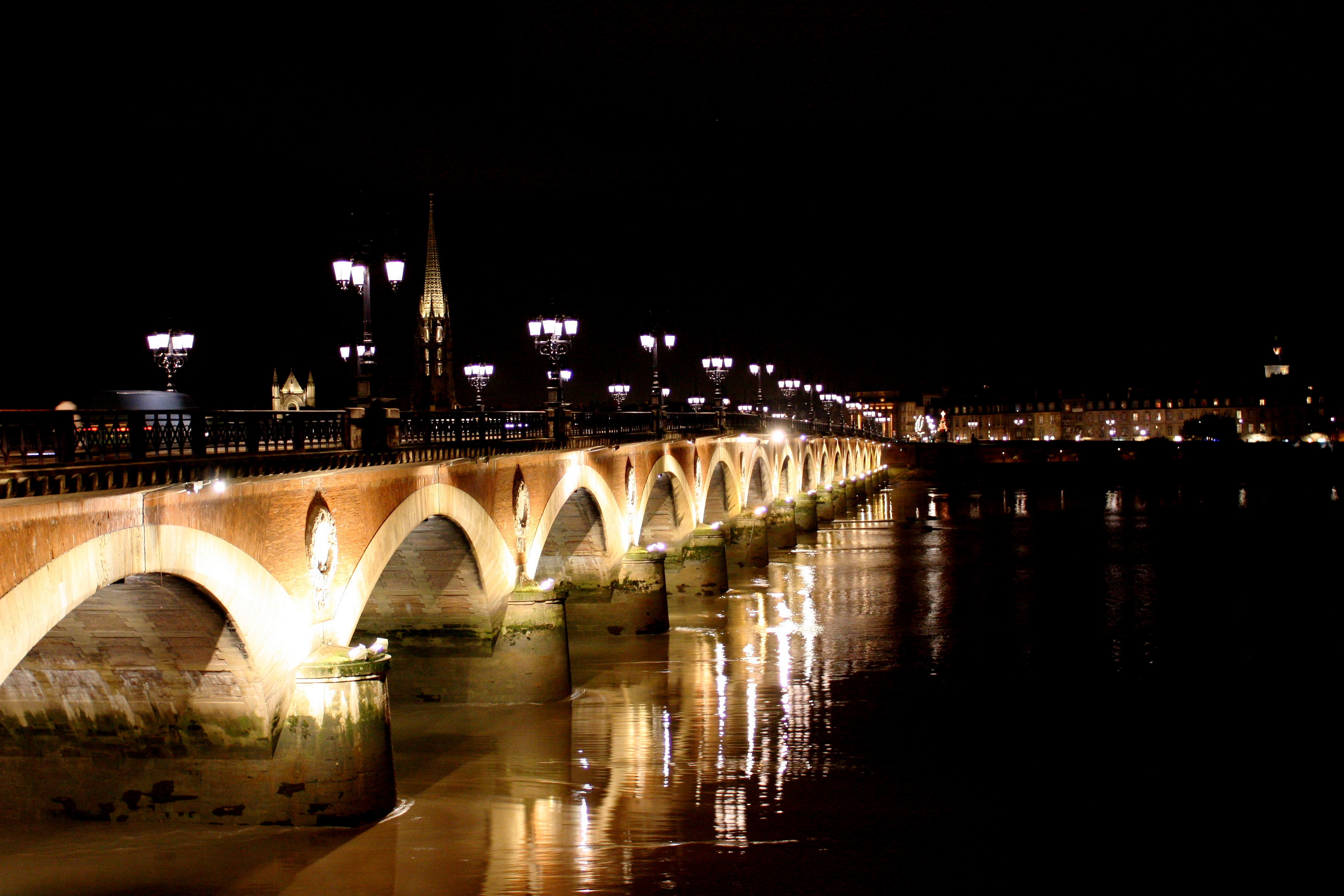 The Pont de Pierre in Bordeaux (France), taken from the right bank of the Garonne. .